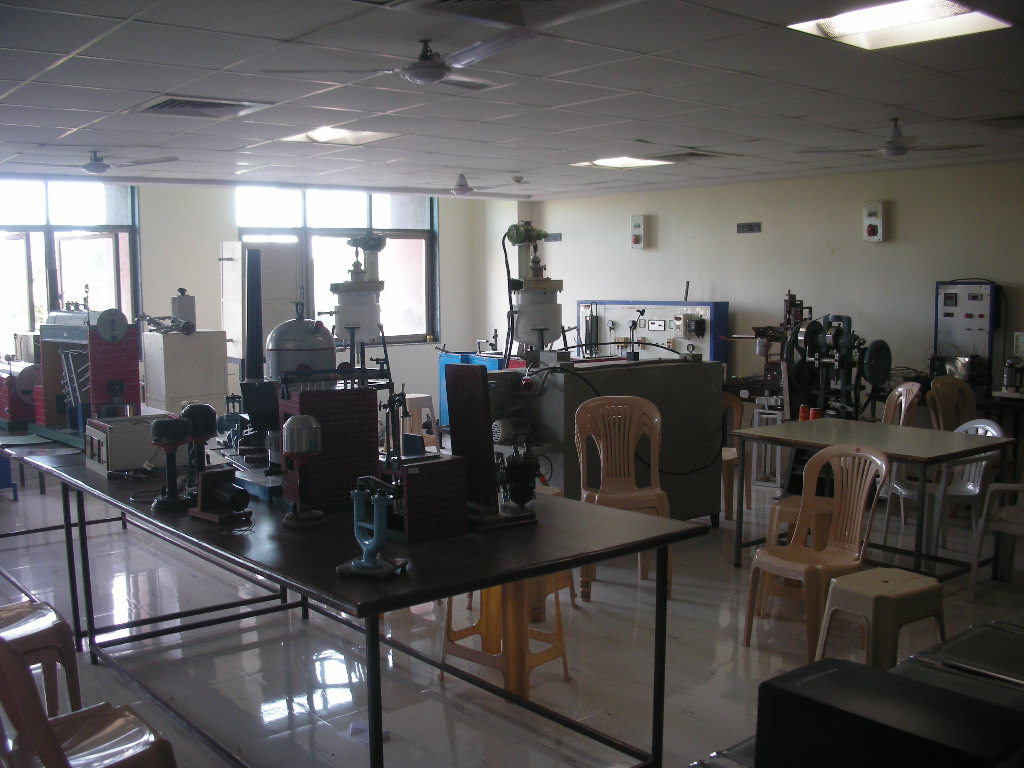 instrumentation engineering lab at parshvanath college of engineering.